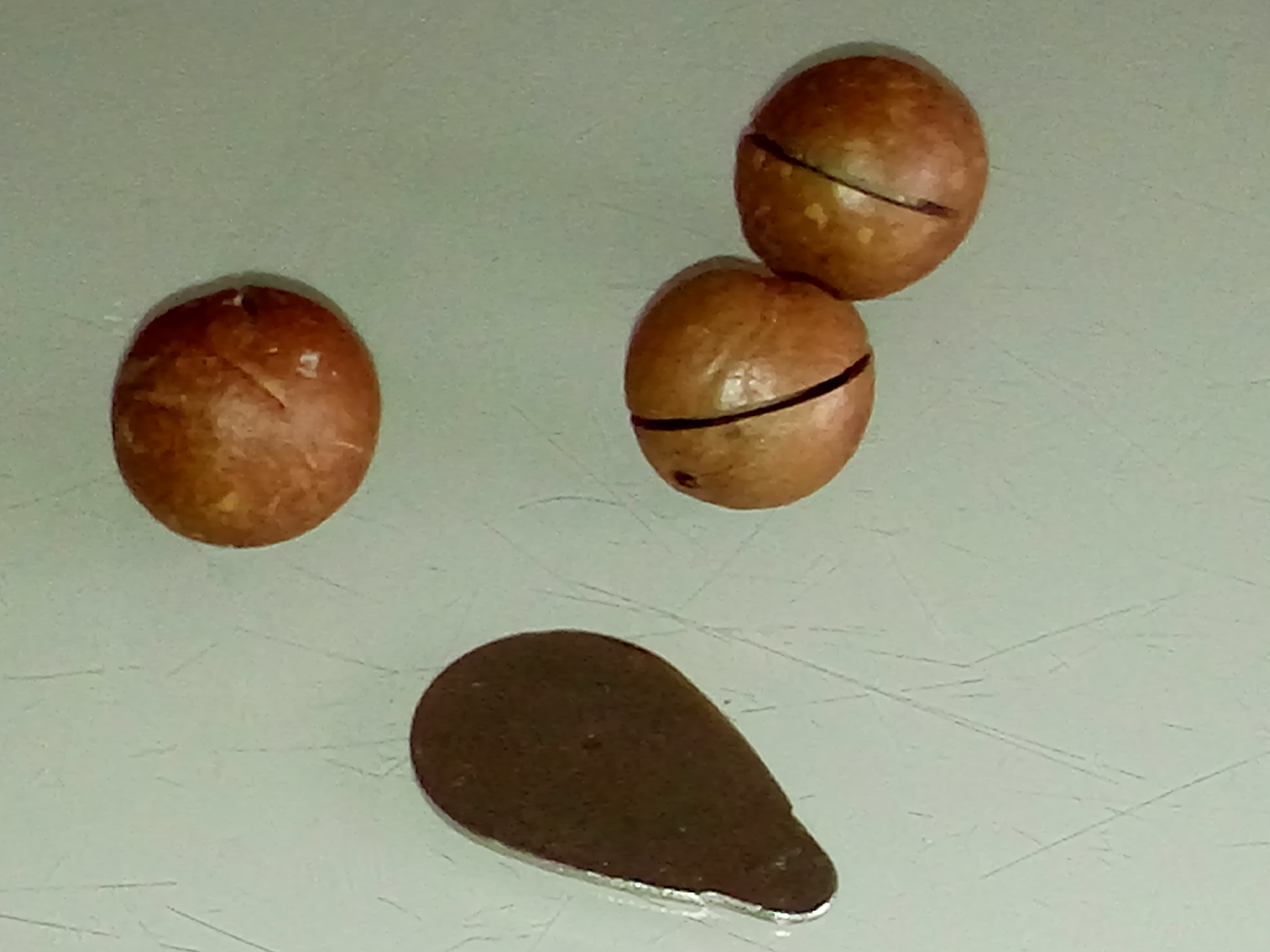 Macadamia nuts with sawn nutshell, and special key, used to pry open the nut